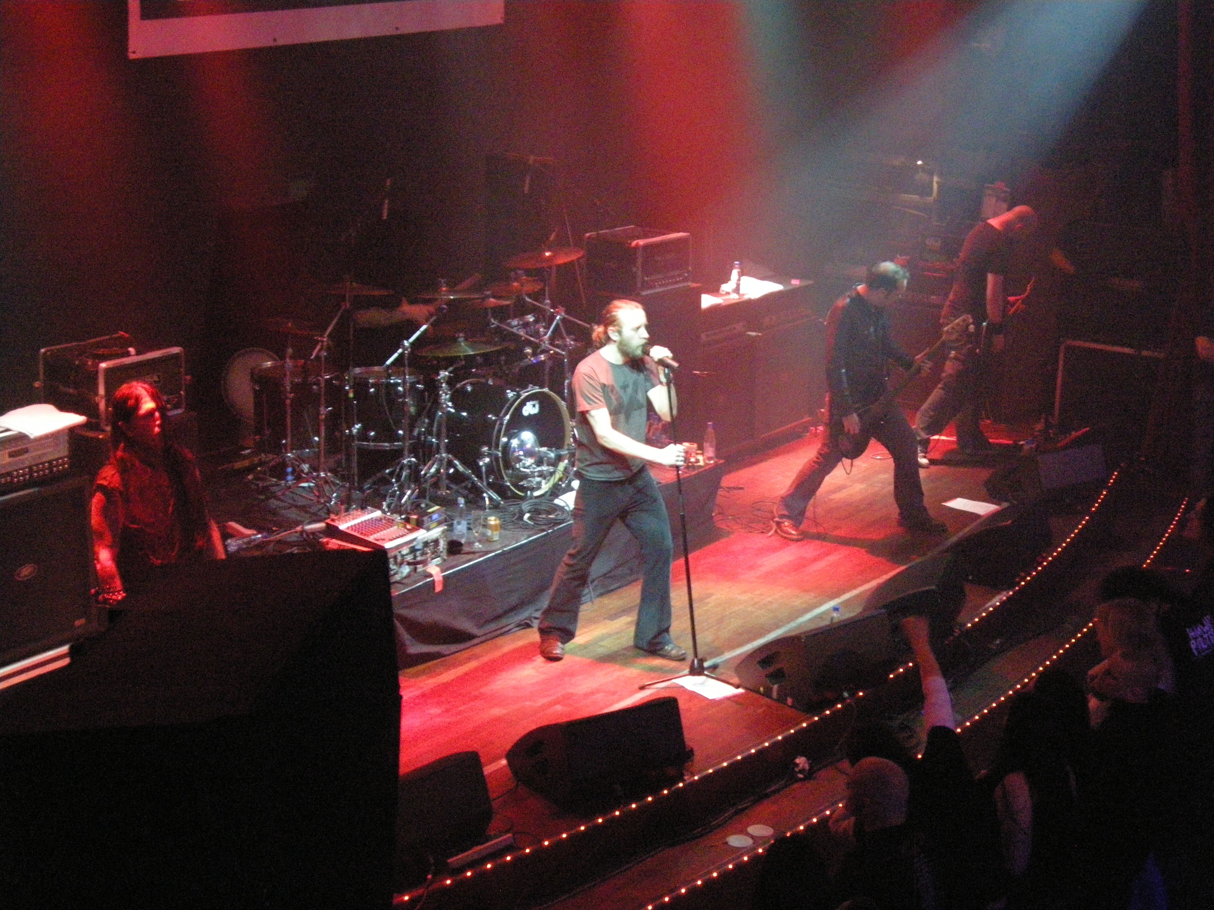 Paradise Lost at Close-Up Boat, February 2011